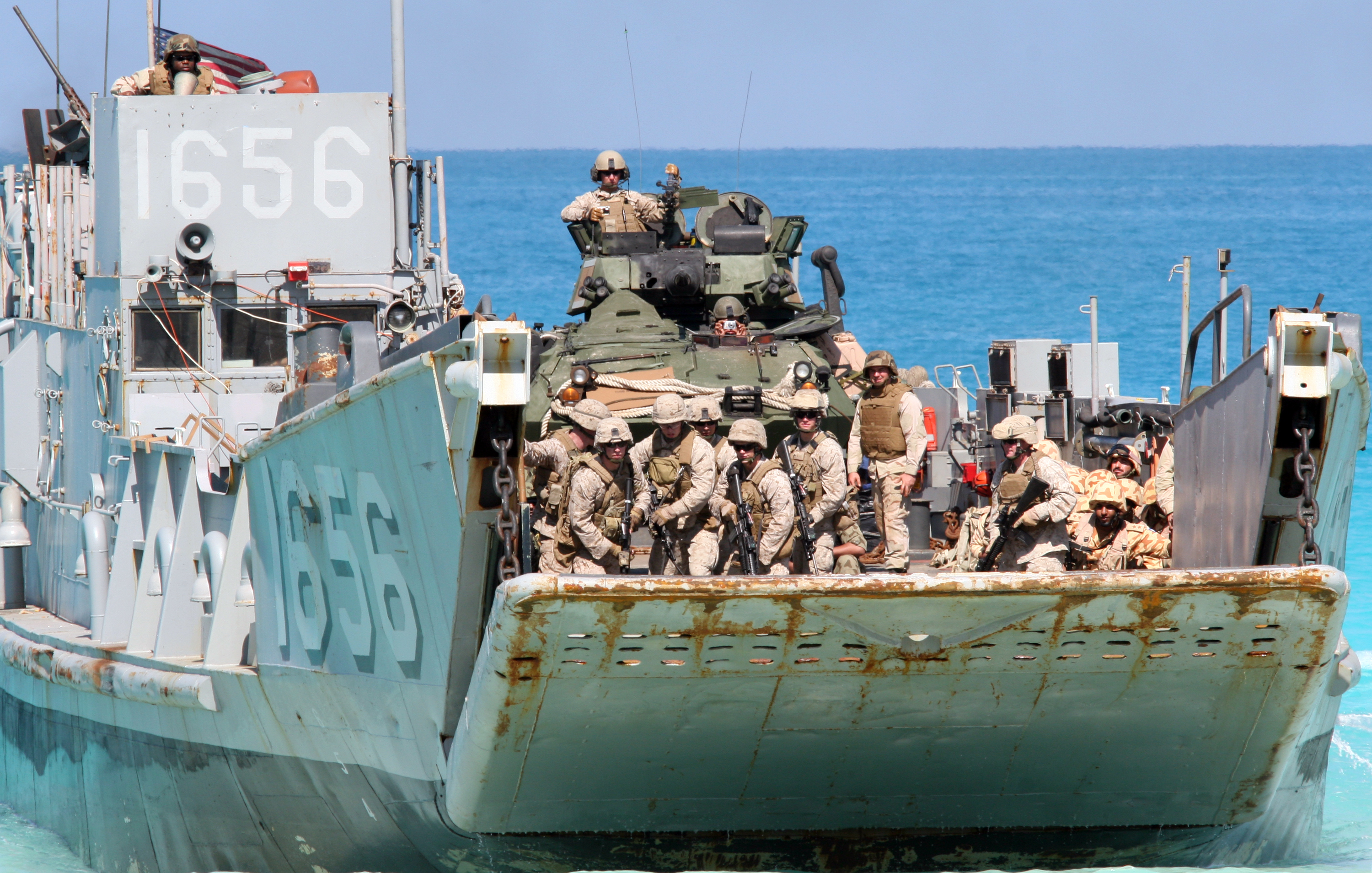 ALEXANDRIA, Egypt (Oct. 12, 2009) Marines and Sailors assigned to the 22nd Marine Expeditionary Unit, the Bataan Amphibious Ready Group and coalition forces conduct an amphibious landing demonstration at Egyptian beaches near Alexandria during Exercise Bright Star 2009.